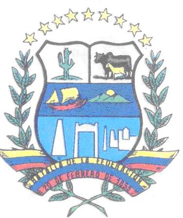 Escudo de Capatárida.